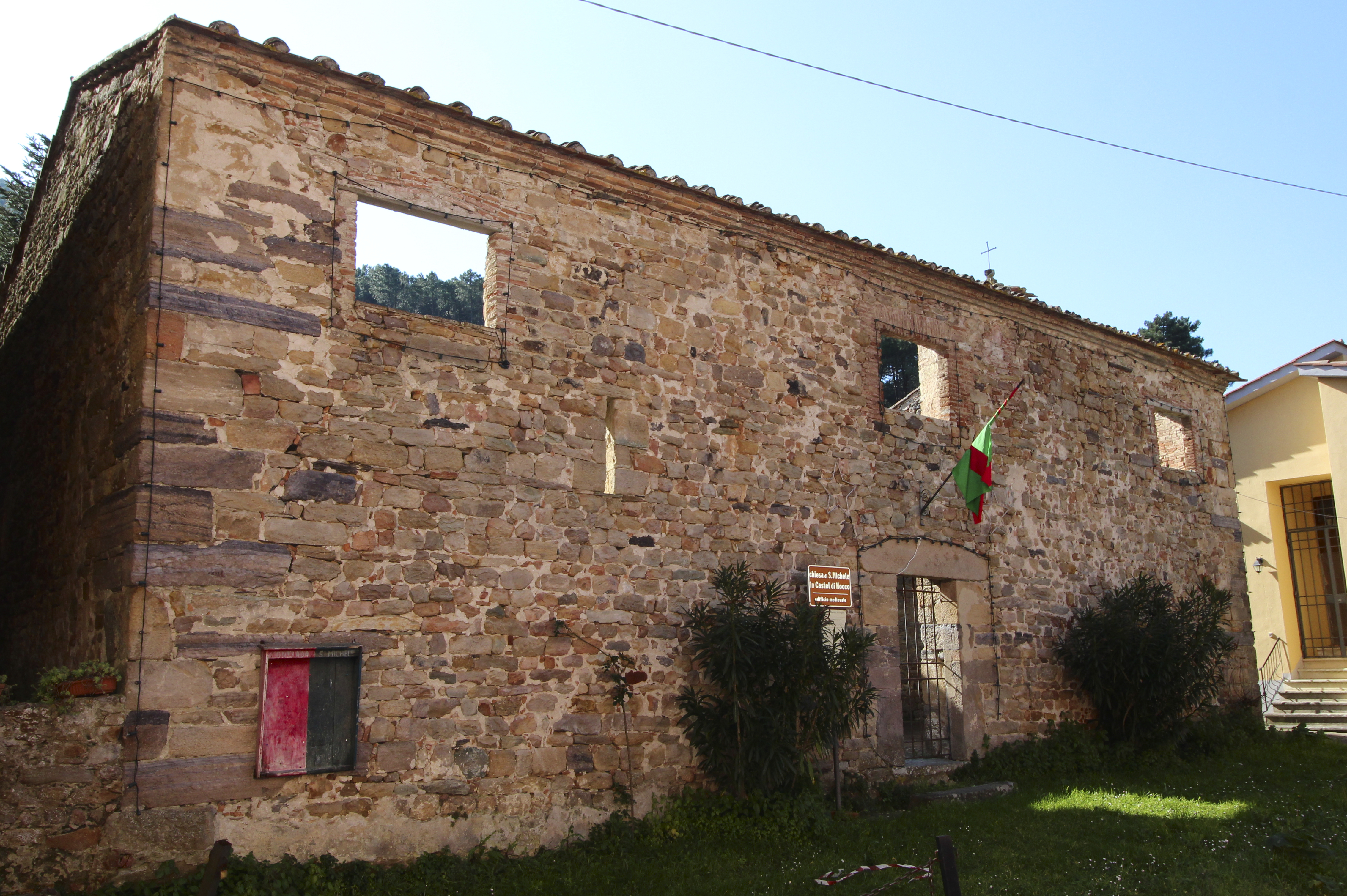 Church San Michele Arcangelo, Castel di Nocco, Buti, Province of Pisa, Tuscany, Italy